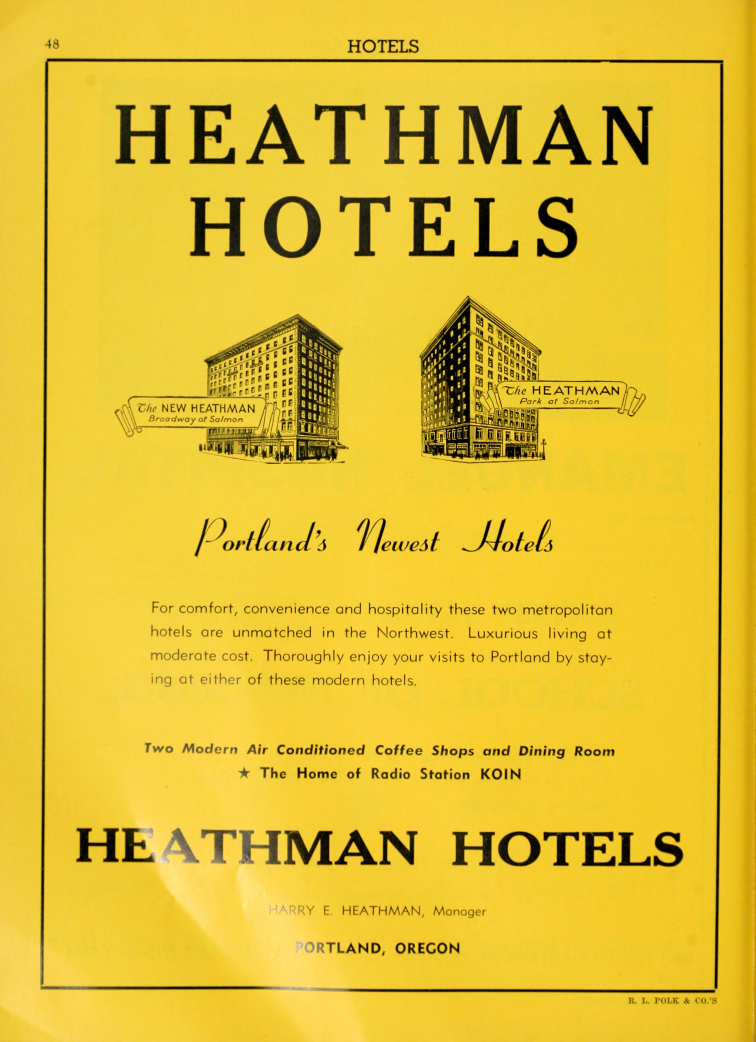 A 1956 Yellow Pages ad for the Heathman hotels in Portland, Oregon, USA.